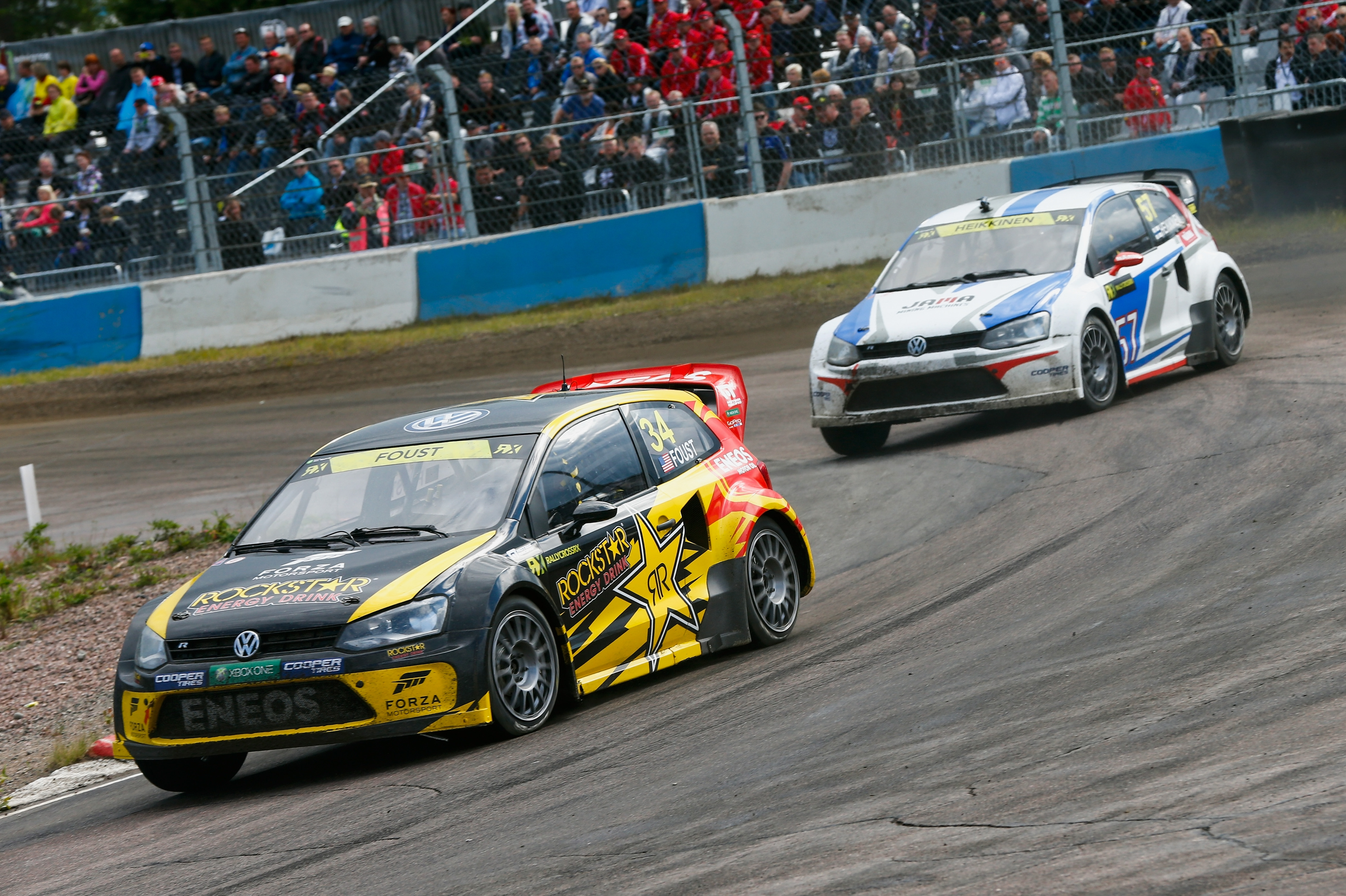 Tanner Foust leads Toomas Heikkinen at Round 4 of the 2014 FIA World Rallycross Championship at Tykkimäen Moottorirata, Finland.